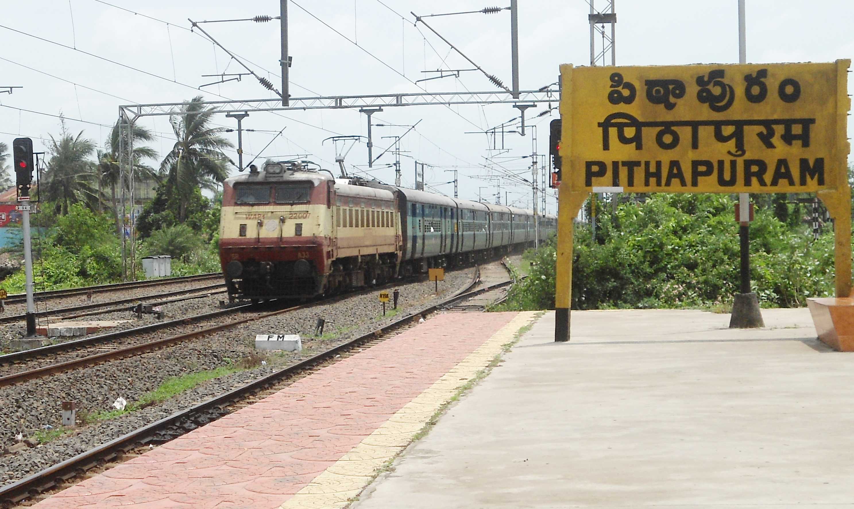 Visakhapatnam - Sainagar Shirdi Weekly Express enters Pithapuram train station